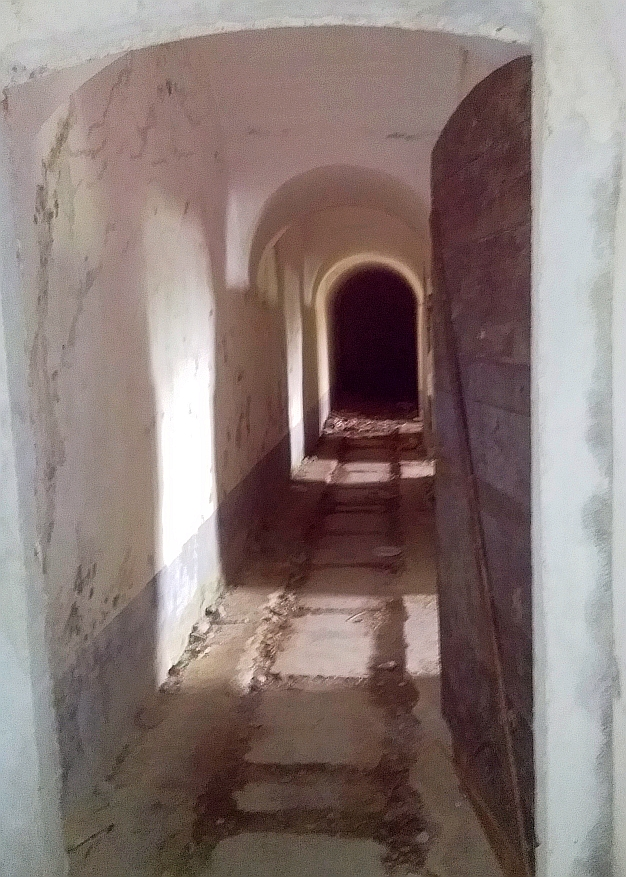 Forte Foens (Oulx, Italy): corridor in the main block